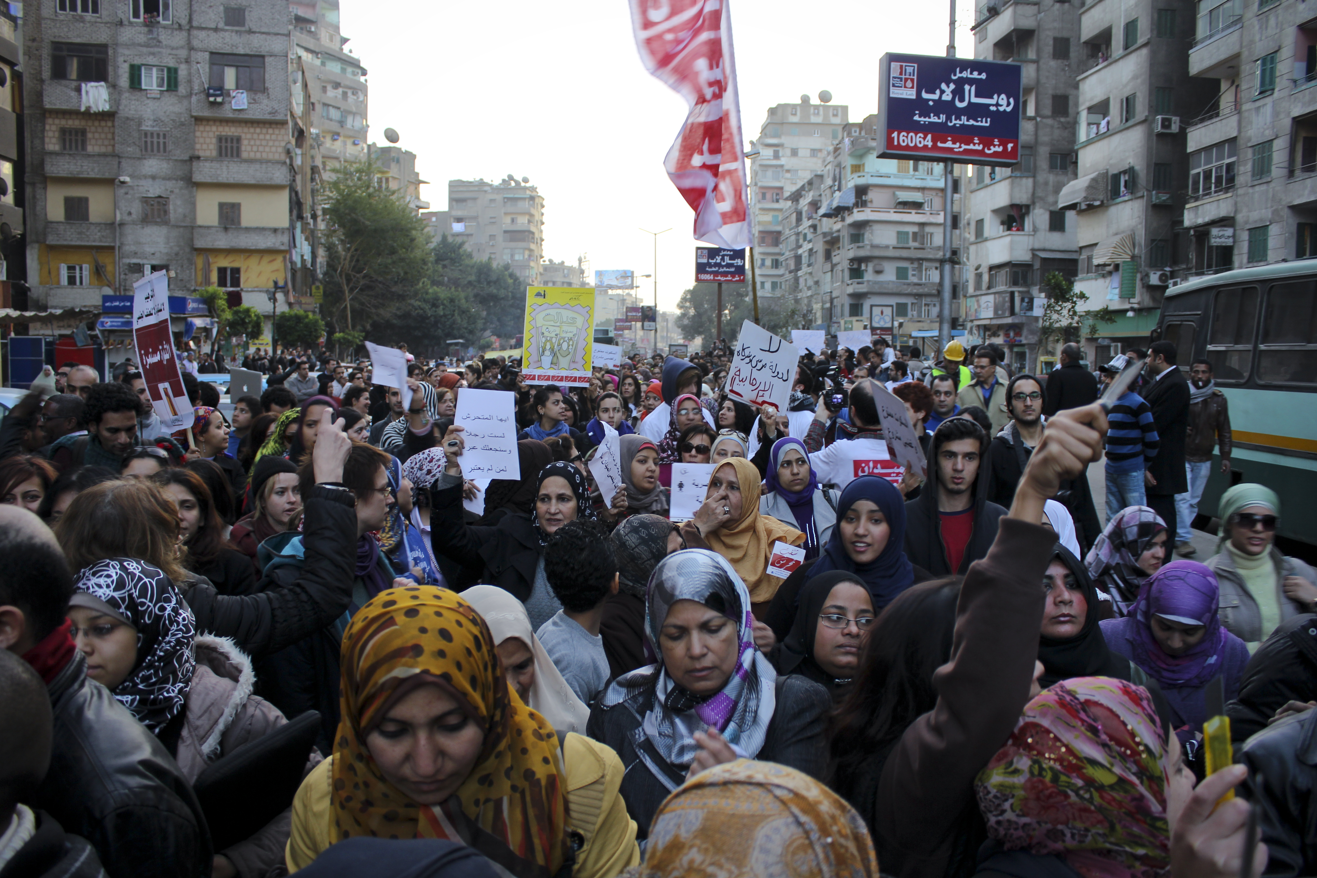 Anti Sexual Harasment March to Tahrir Square, Cairo, 6 February 2013.